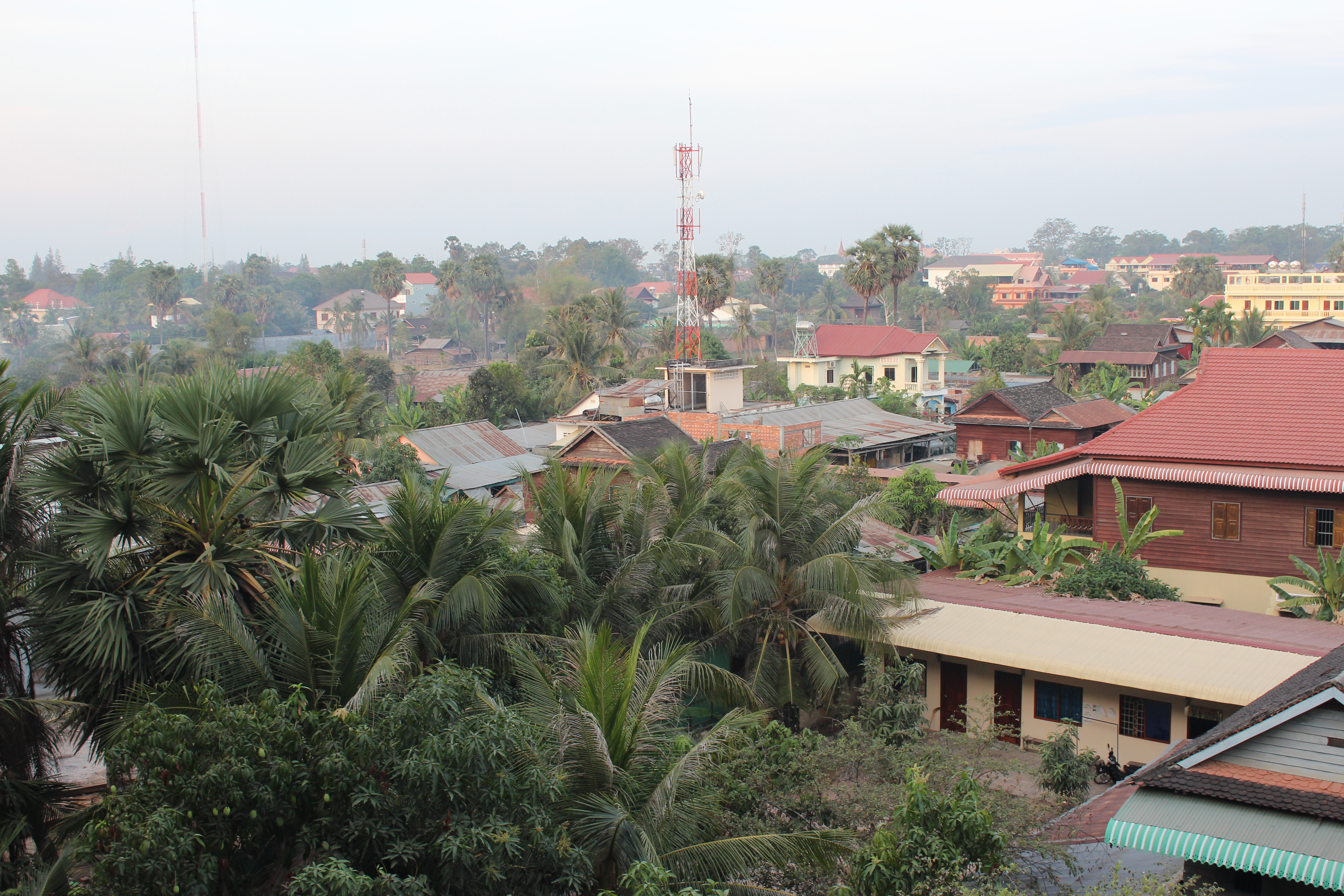 Siem Reap, Cambodia, 2012